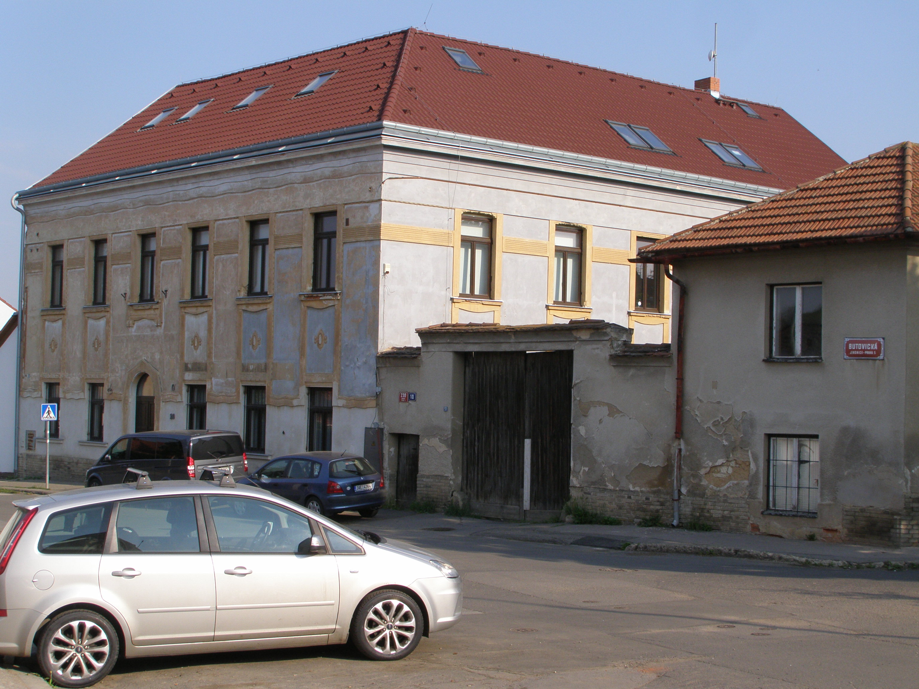 The building of former pub "Na Staré" in Prague - Jinonice where illegal radiostation Sparta II broadcasted secret messages to London during the Protectorate